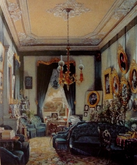 The salon of Princess Ekaterine Dadiani of Mingrelia (Western Georgia) at Tsarskoe Selo, Near Saint Petersburg, Russia